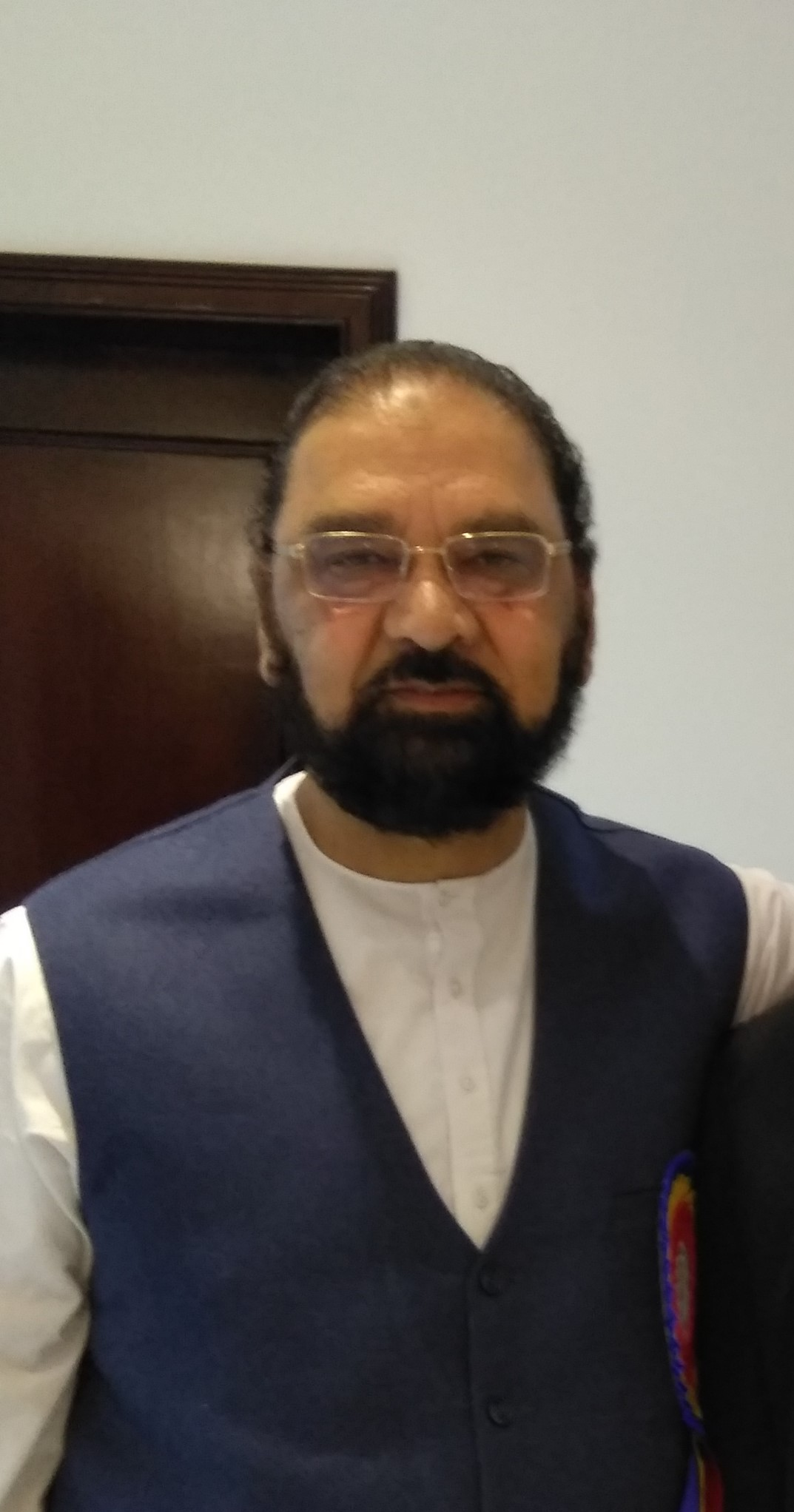 Indian Poet of Urdu Language Dr.Nawaz Deobandi